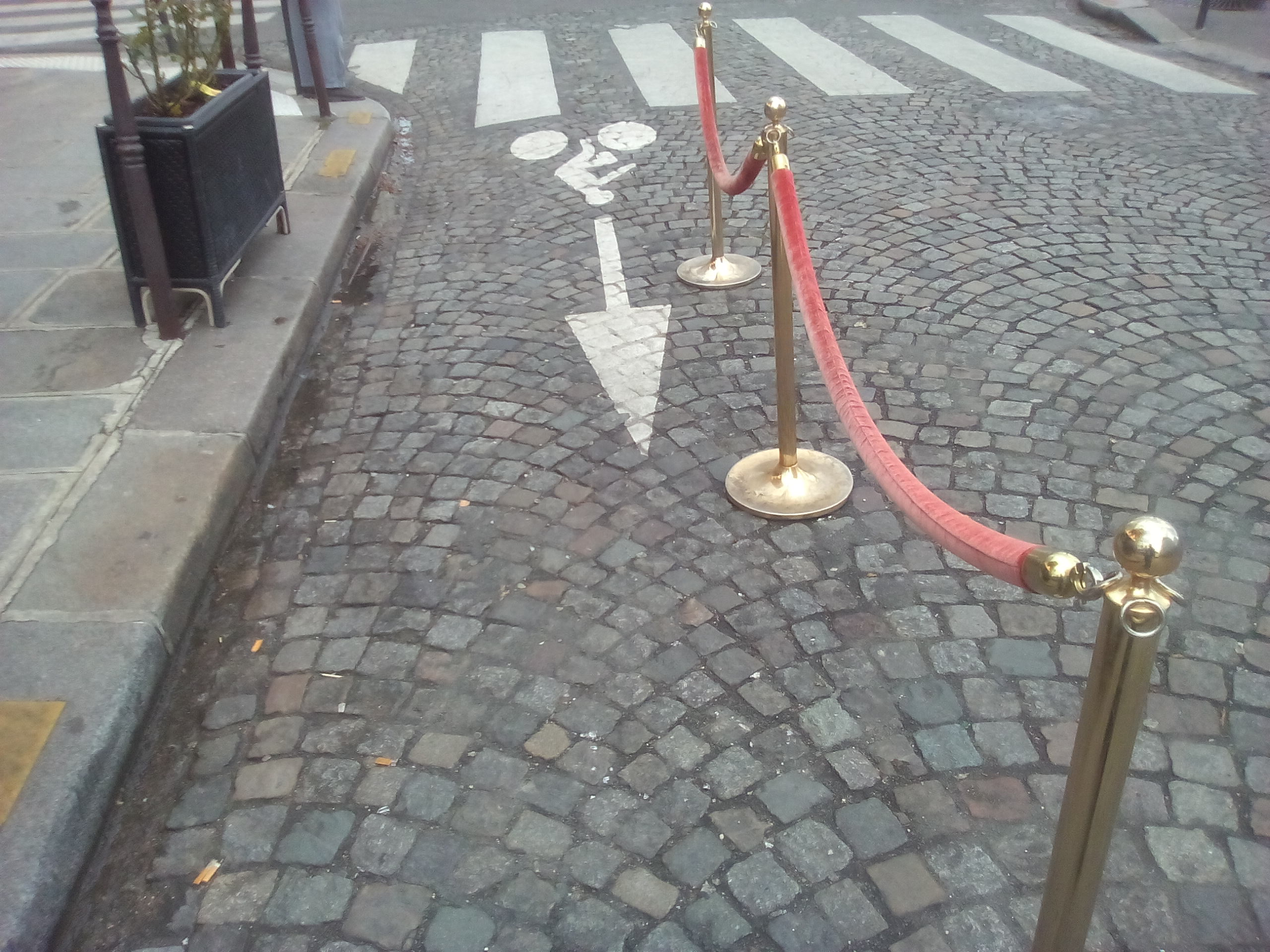 valet parking